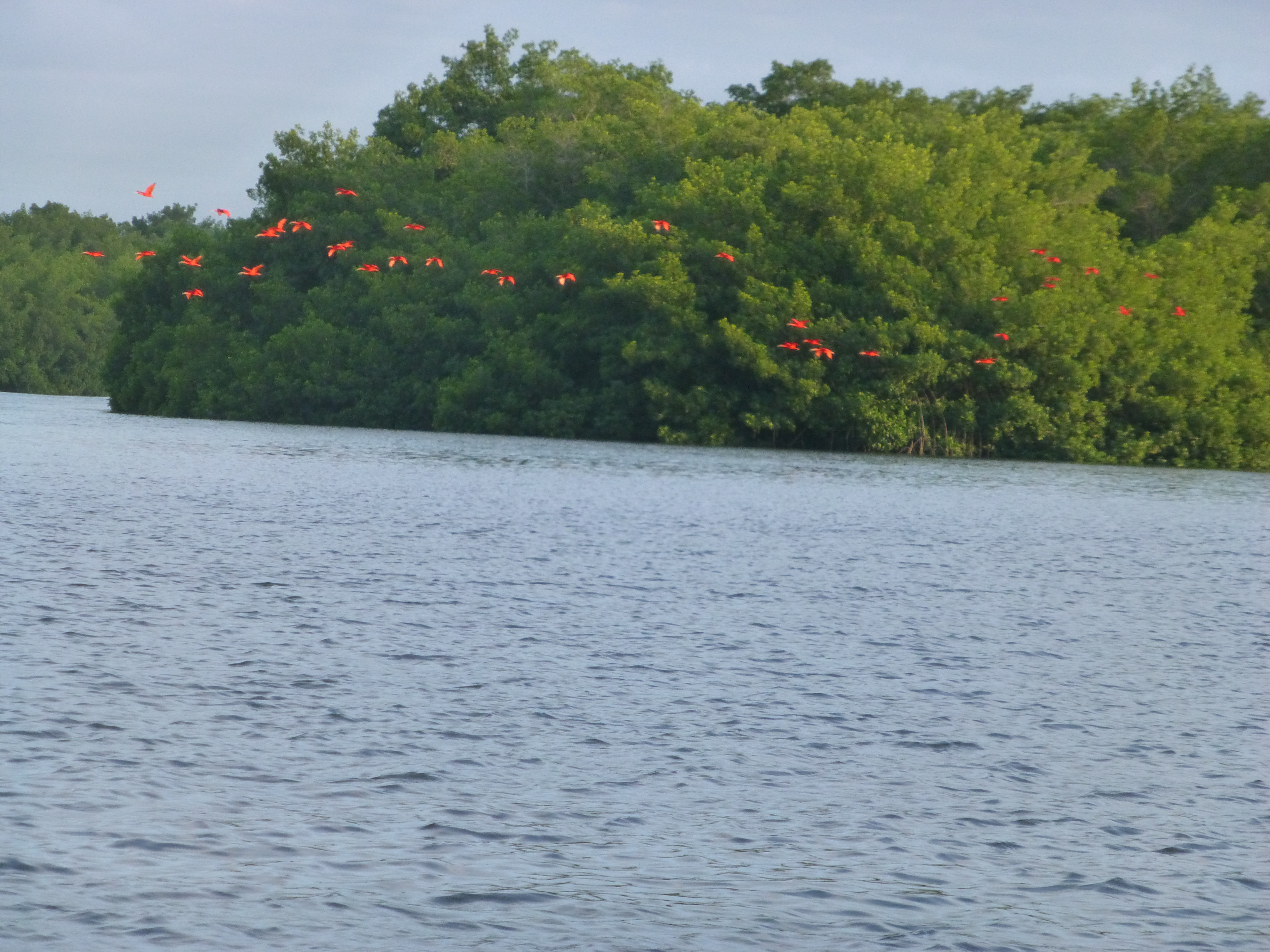 Scarlet ibises on their daily way back to their resting grounds, Caroni swamp, Trinidad.